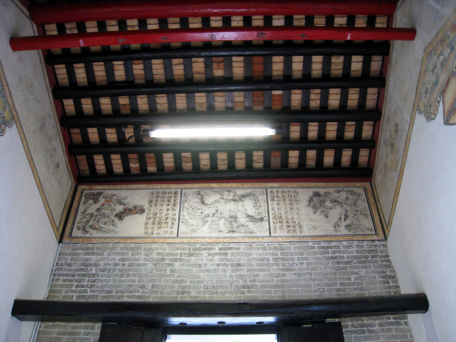 HK Wong Uk Village WallPaint